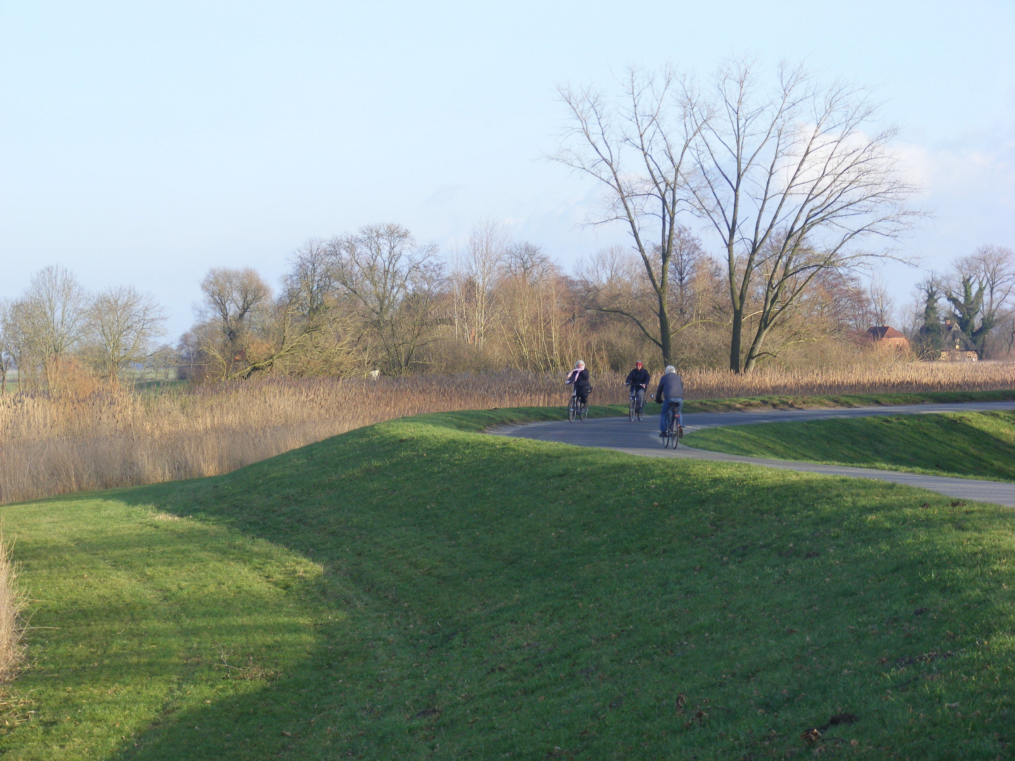 As Bremen tends to have mild winters, for a lot of people the cycling season comprises 12 months: Dike of the Wümme in the Blockland on a Saturday afternoon in mid January.